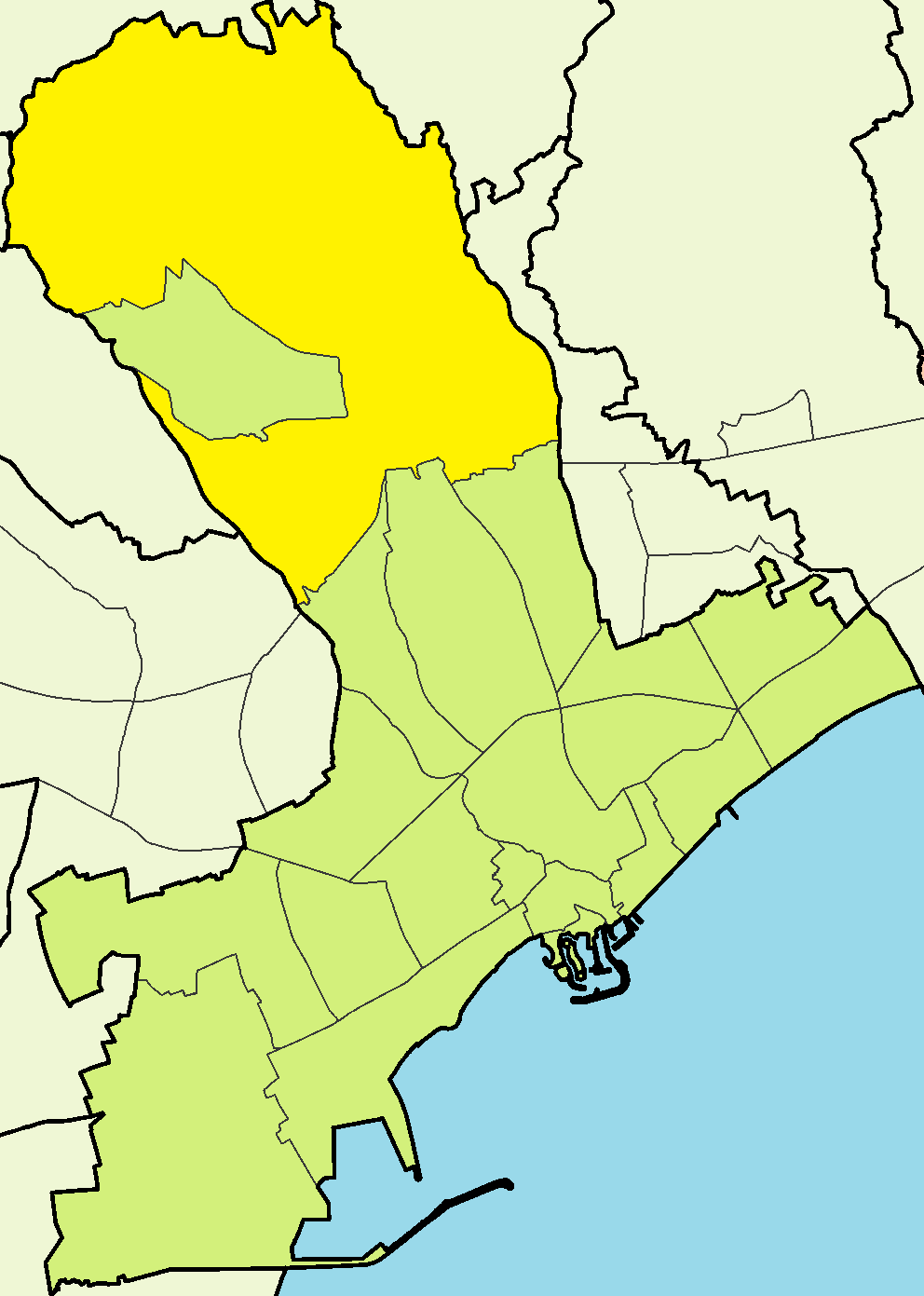 Agia Fyla in Limassol Municipality